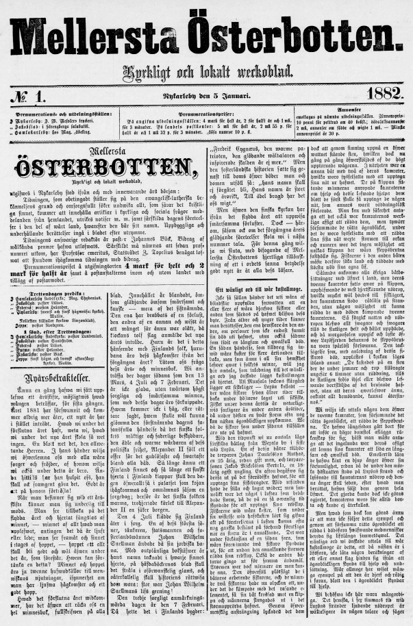 Front page of newspaper "Mellersta Österbotten", issued in Nykarleby, Finland. This work is in the public domain in its country of origin and other countries and areas where the copyright term is the author's life plus 70 years or less. You must also include a United States public domain tag to indicate why this work is in the public domain in the United States. Note that a few countries have copyright terms longer than 70 years: Mexico has 100 years, Jamaica has 95 years, Colombia has 80 years, and Guatemala and Samoa have 75 years. This image may not be in the public domain in these countries, which moreover do not implement the rule of the shorter term. Côte d'Ivoire has a general copyright term of 99 years and Honduras has 75 years, but they do implement the rule of the shorter term. Copyright may extend on works created by French who died for France in World War II (more information), Russians who served in the Eastern Front of World War II (known as the Great Patriotic War in Russia) and posthumously rehabilitated victims of Soviet repressions (more information). This file has been identified as being free of known restrictions under copyright law, including all related and neighboring rights.